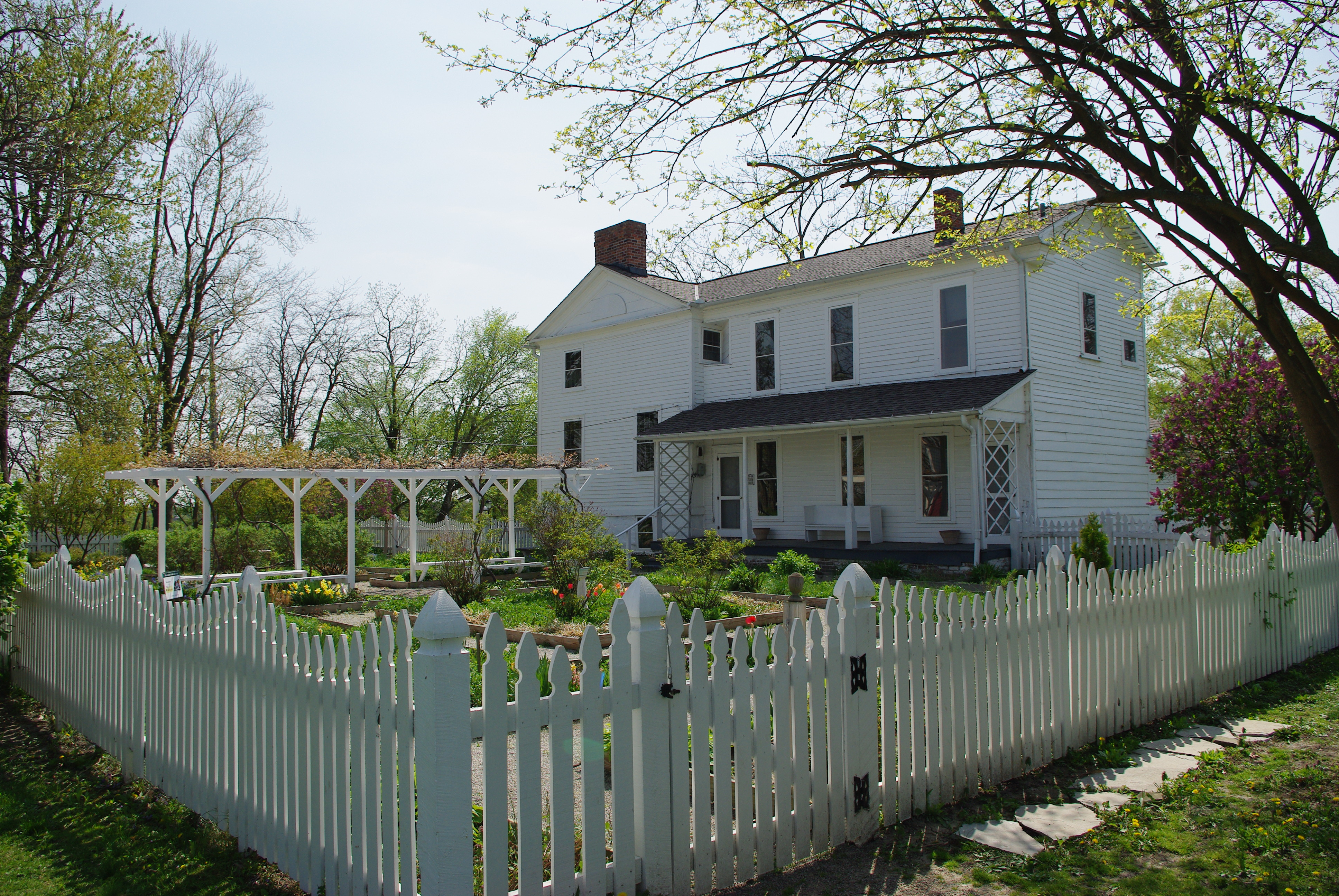 This is the Hull-Wolcott House in Maumee, OH. The perspective is looking across the garden towards the house. The photo was taken on April 22, 2010.